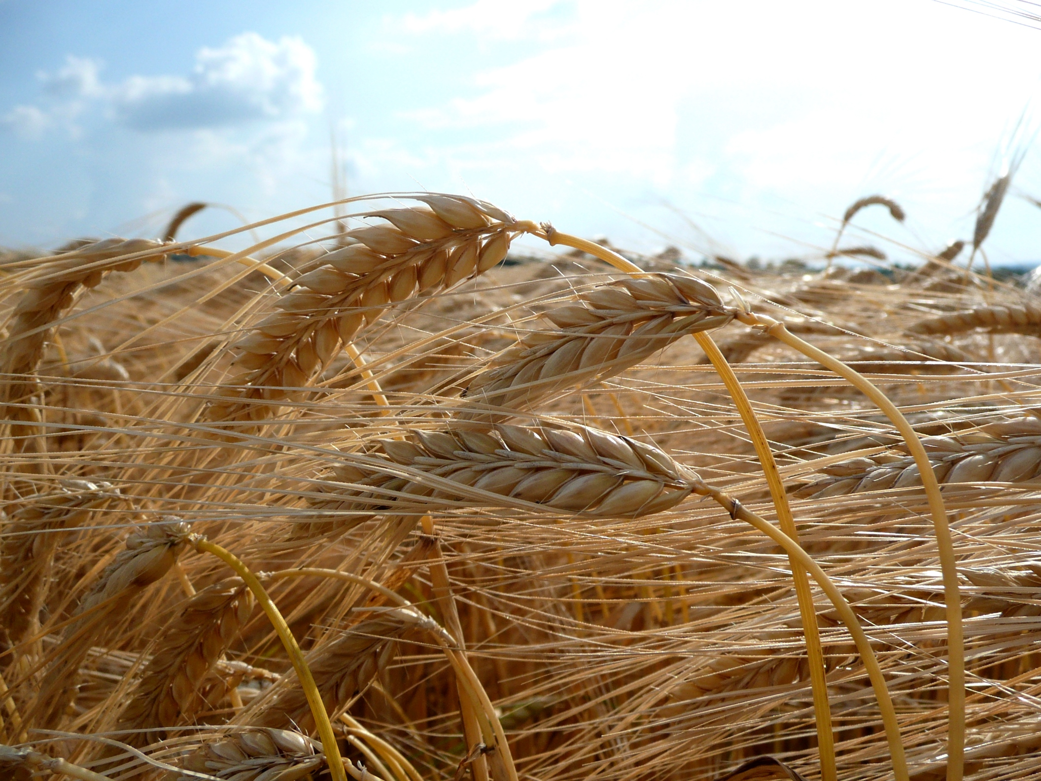 Barley (Hordeum vulgare) on a field near Höchberg, Germany